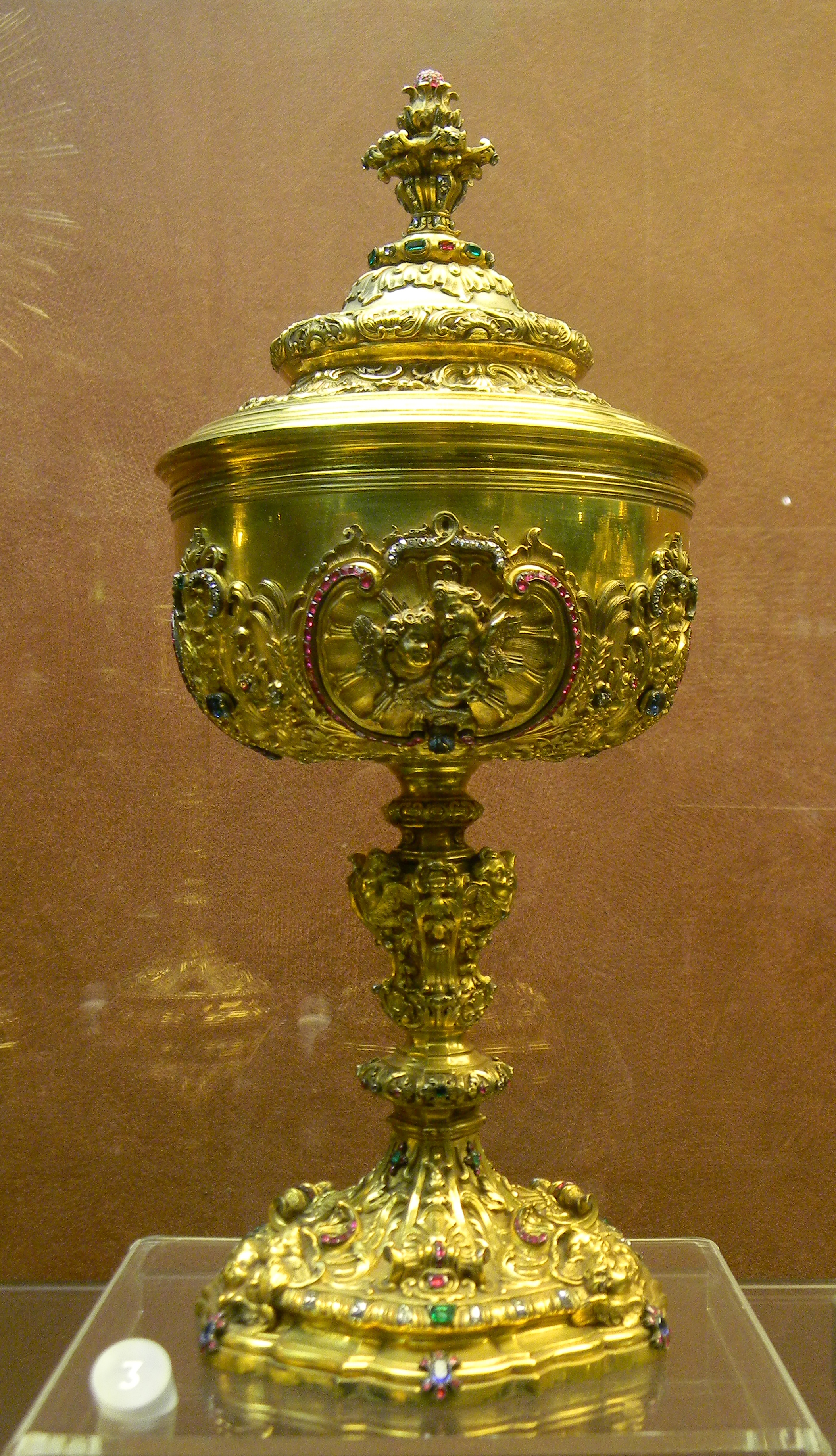 On the base bears an inscription stating that it was a gift from Frei Francisco de Jesus Maria Sarmento to the chapel and sodality of Nª. Srª. do Patrocínio in the year of 1766. The ciboria is made of silver gilt, diamonds, rubies, emeralds and rhinestones. Nowadays it is in the National Museum of Ancient Art, Lisbon.